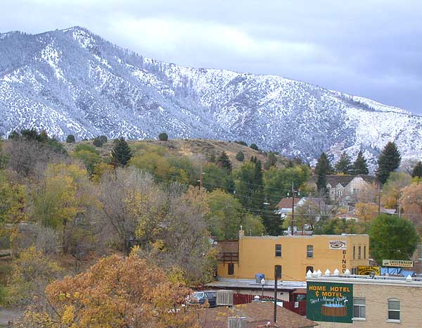 Lava Hot Springs, seen from U.S. Highway 30 (taken Oct. 18, 2004)